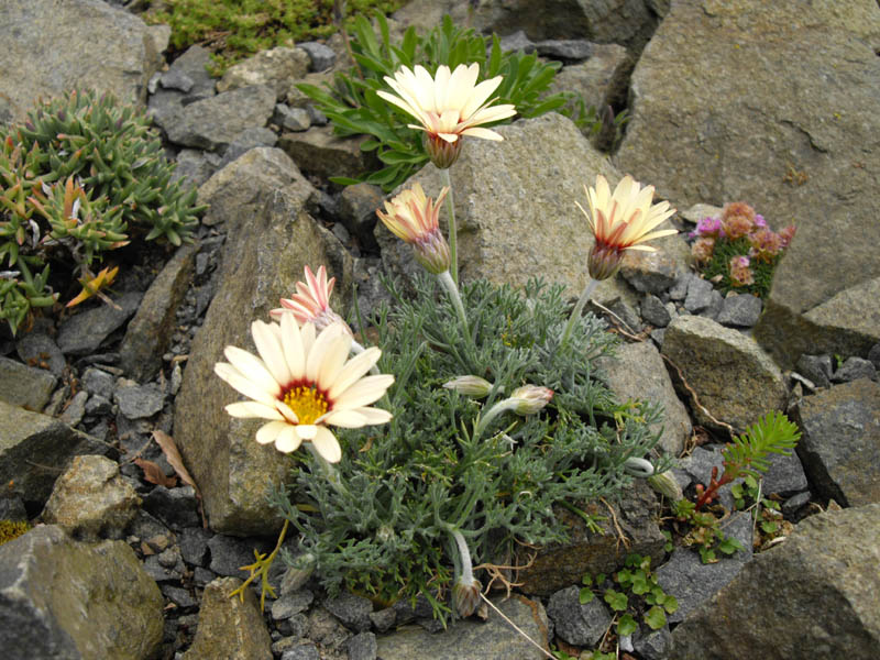 Rhodanthemum catananche